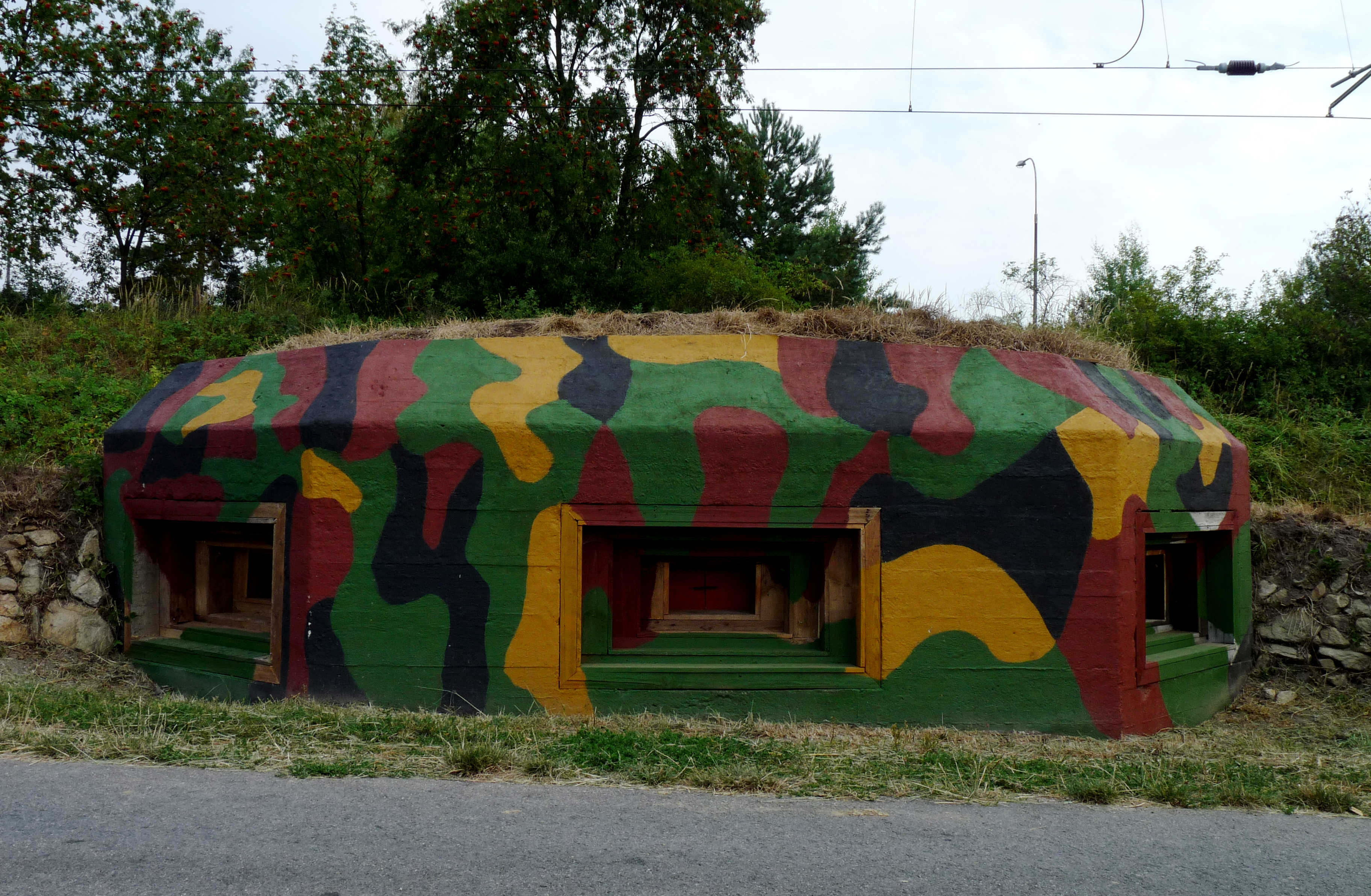 Light pillbox Model 36C in the town of Borovany, České Budějovice District, Czech Republic.